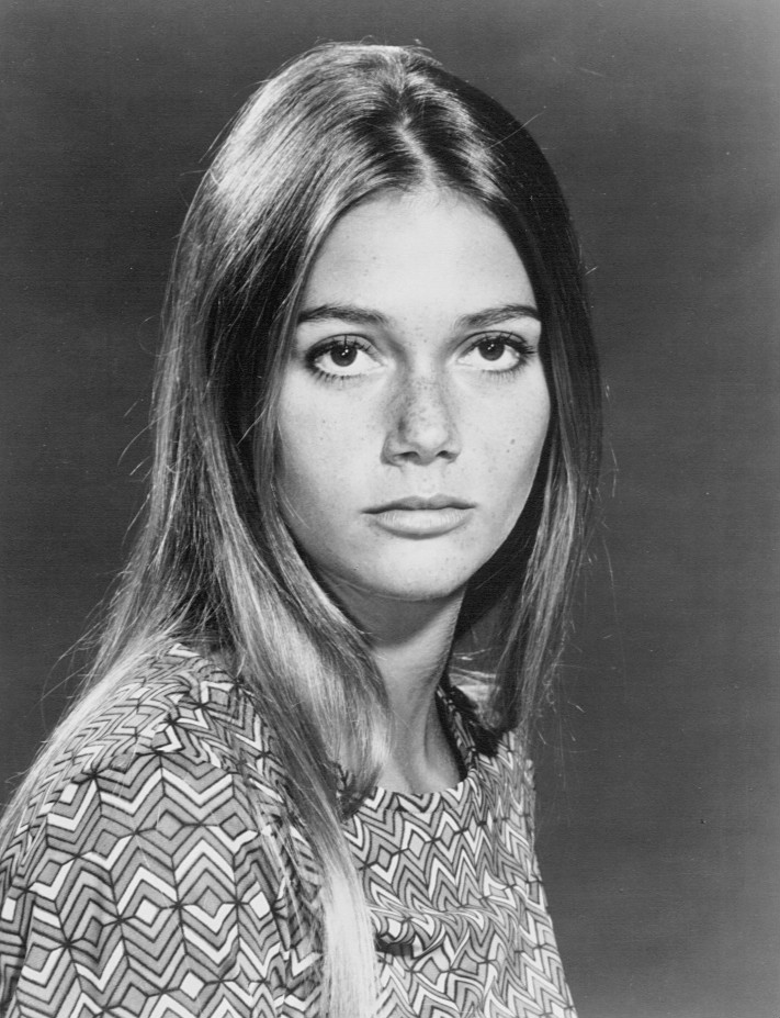 Publicity photo of Peggy Lipton from the television program The Mod Squad.